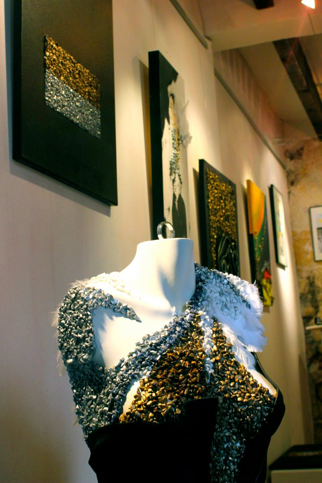 Buste Myléna atannasova, exposition du 02/05/12